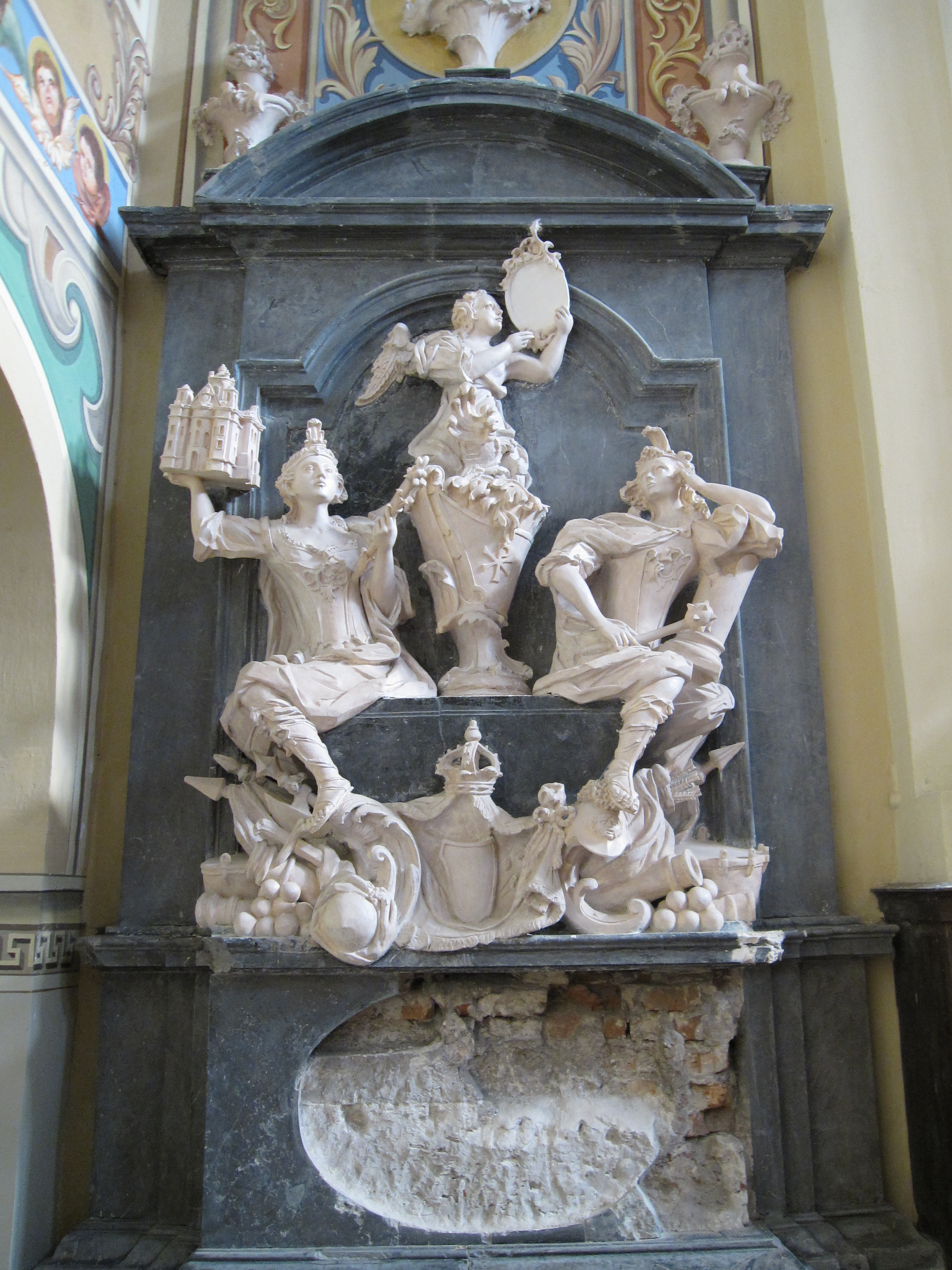 Dominican Church, Zhovkva